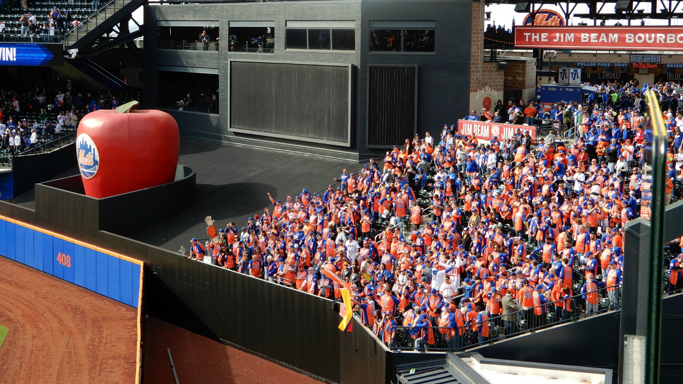 The 7 Line Army Celebrating the Mets Opening Day Victory